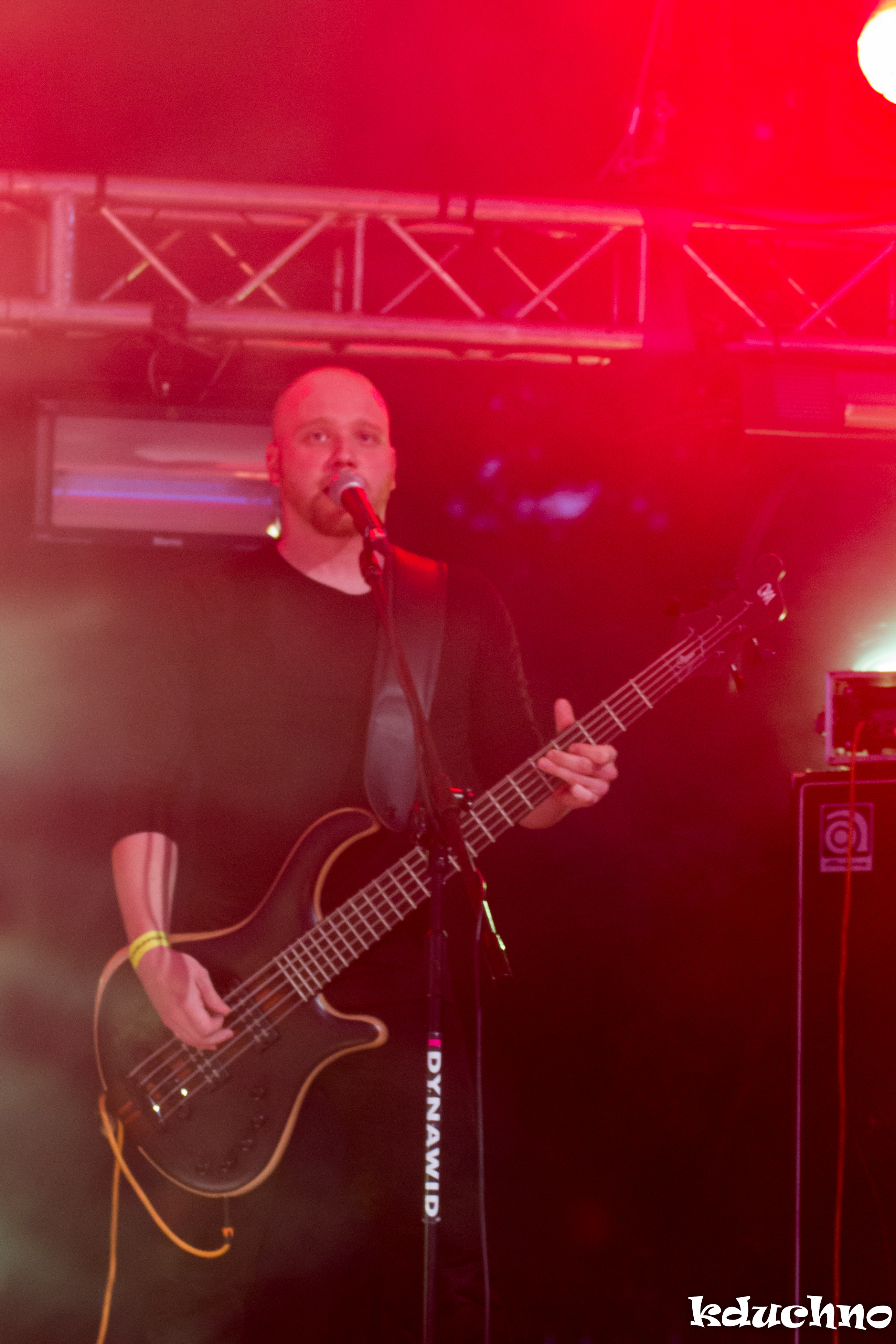 Matteo Bassoli of Blindead